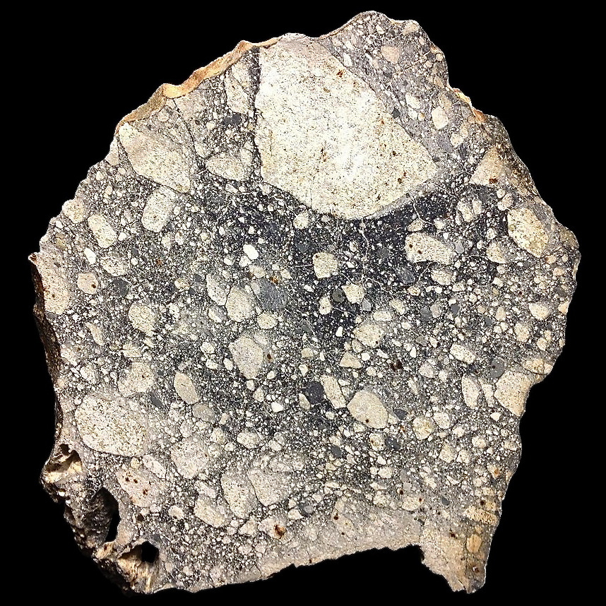 NWA 5000 meteorite, lunar meteorite found in 2007. This meteorite is made of gabbroic impact breccia.